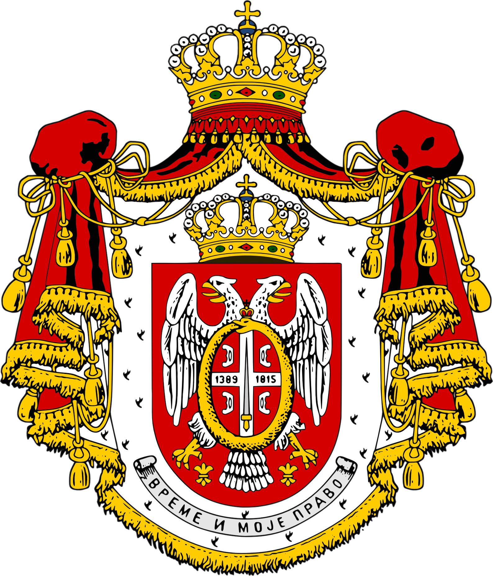 Great Coat of Arms of the Obrenovic Royal Family. The Obrenovic Dynasty started using this Coat of Arms when Serbia got elevated to the status of a Kingdom.